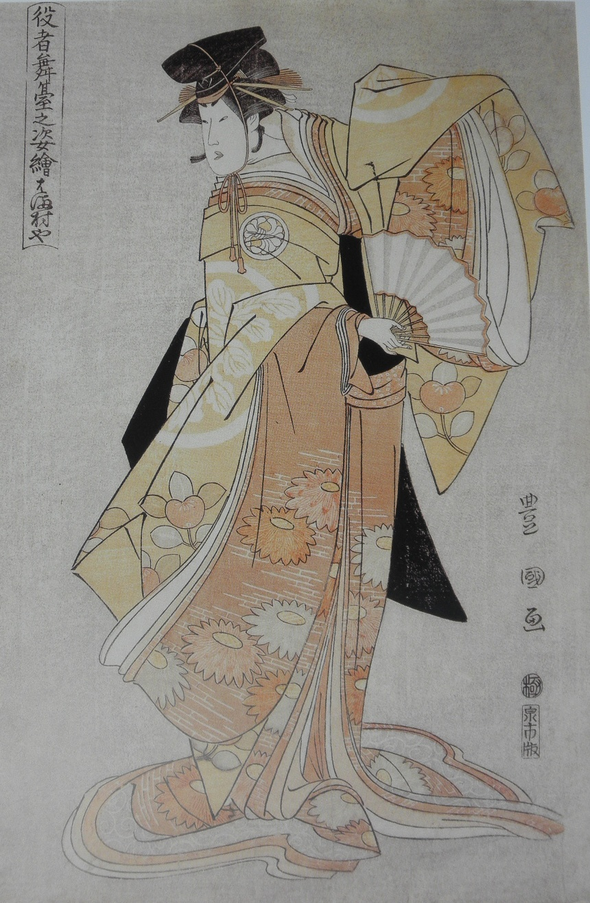 the actor Segawa Kikunojō III as shirabyōshi dancer Hisakata, series “Pictures of actors on stage“, Toyokuni I, 1794